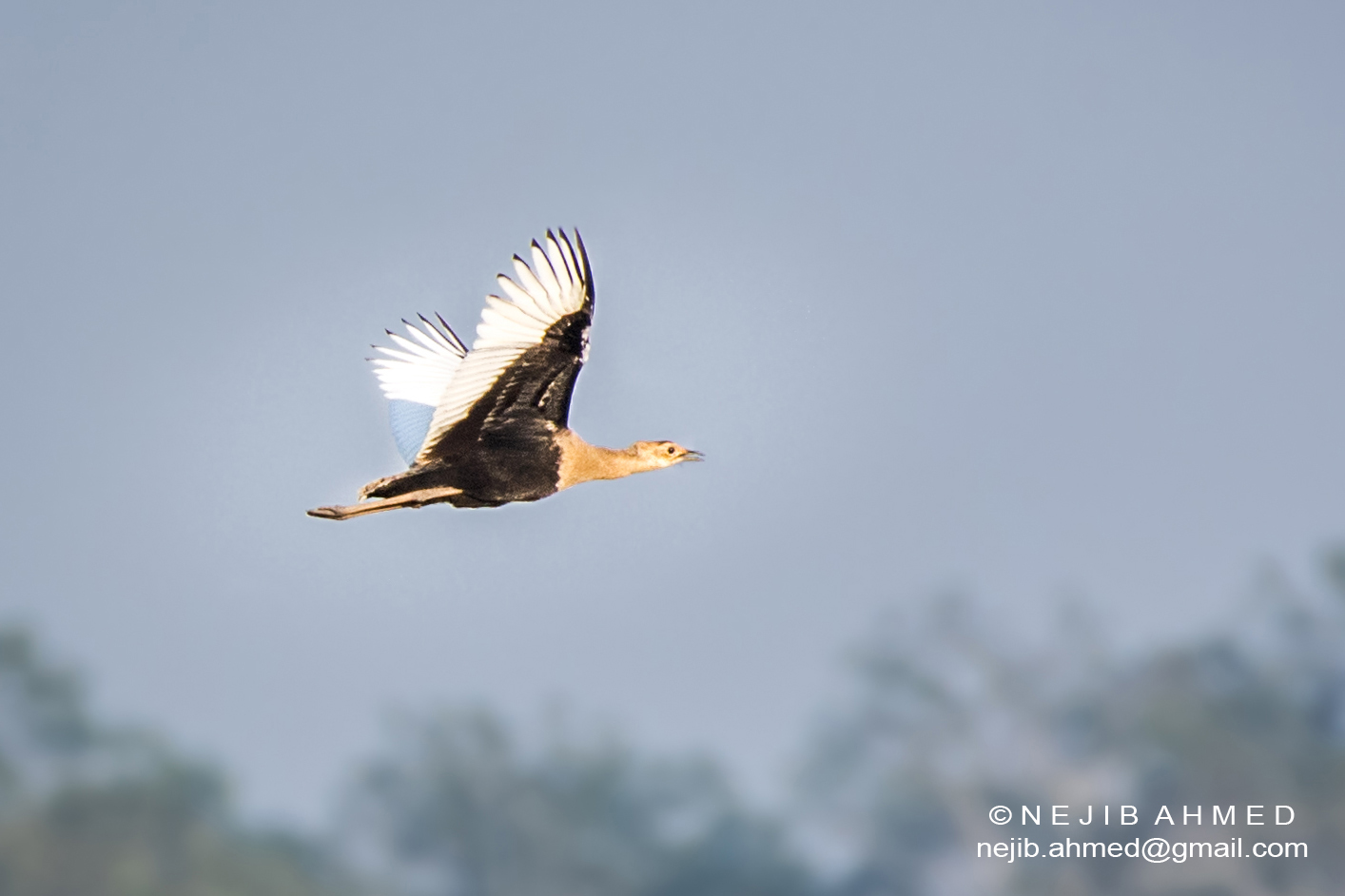 The Bengal florican (Houbaropsis bengalensis), also called Bengal bustard. It is a Critically Endangered species on the IUCN Red List